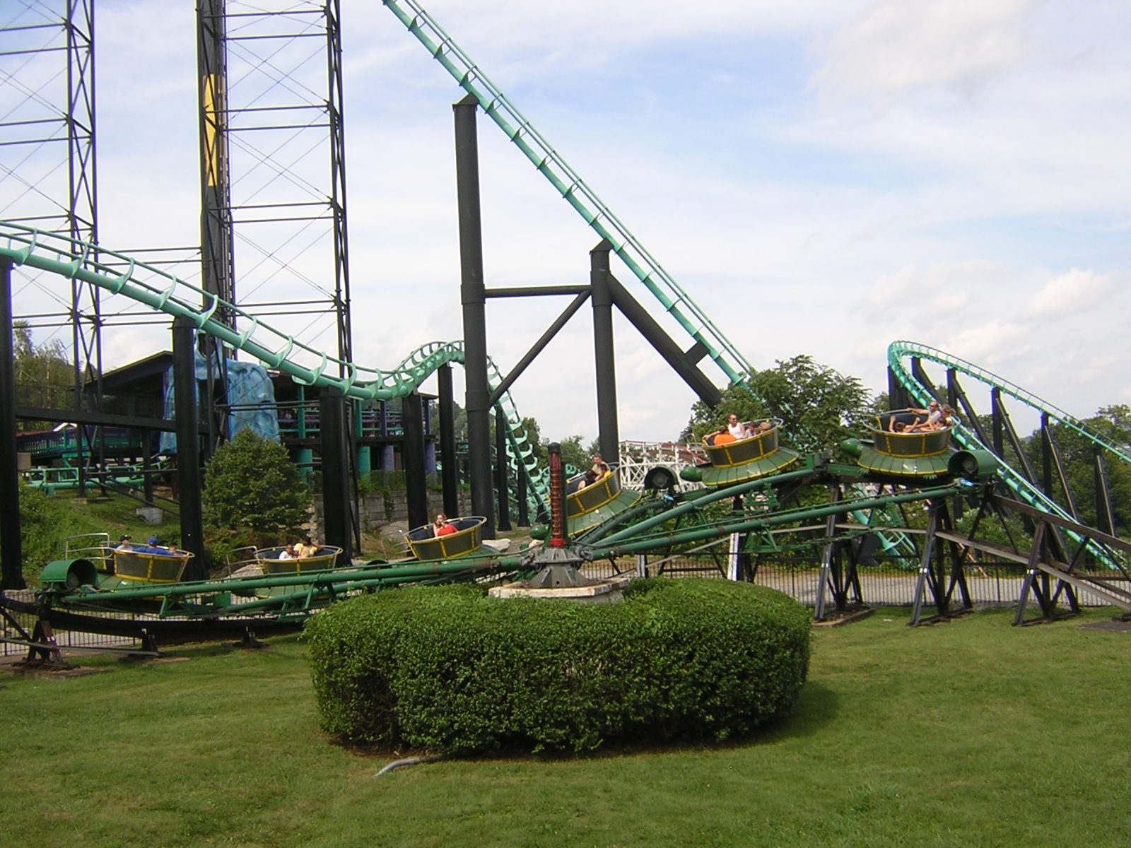 A scene from Kennywood, an amusement park located in West Mifflin, Pennsylvania on the Monongahela River. This is a view of the historic Turtle ride. This Tumble Bug ride dates to 1926.